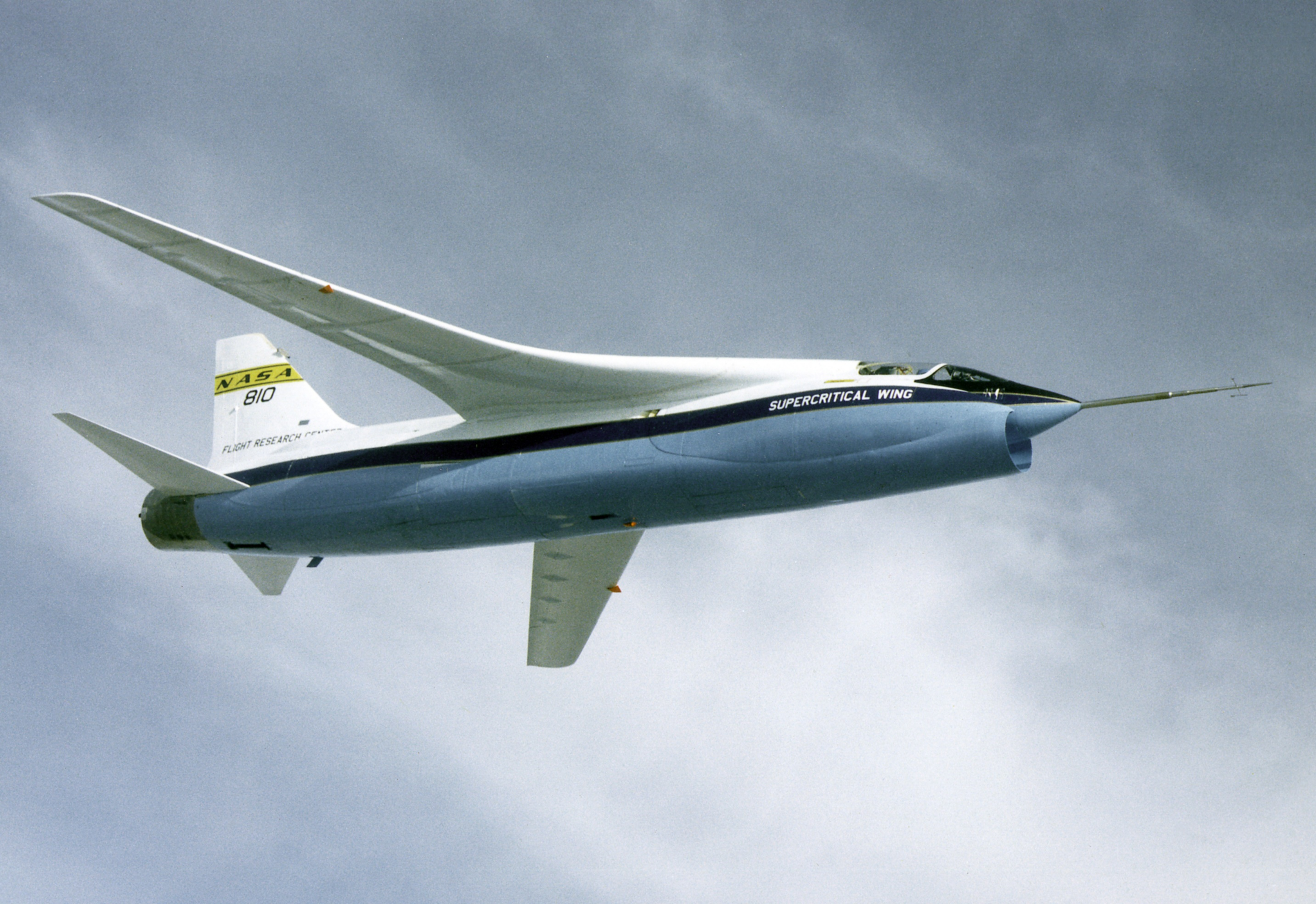 A Vought F-8A Crusader was selected by NASA as the testbed aircraft (designated TF-8A) to install an experimental Supercritical Wing in place of the conventional wing. The unique design of the Supercritical Wing (SCW) reduces the effect of shock waves on the upper surface near Mach 1, which in turn reduces drag. The F-8 Supercritical Wing (SCW) project flew from 1970 to 1973. Dryden engineer John McTigue was the first SCW program manager and Tom McMurtry was the lead project pilot. The first SCW flight took place on 9 March 1971. The last flight of the Supercritical wing was on 23 May 1973, with Ron Gerdes at the controls. Original wingspan of the F-8 was 35 feet, 2 inches while the wingspan with the supercritical wing was 43 feet, 1 inch. F-8 aircraft were powered by Pratt & Whitney J57 turbojet engines. The TF-8A Crusader was made available to the NASA Flight Research Center by the U.S. Navy. F-8 jet aircraft were built, originally, by LTV Aerospace, Dallas, Texas. Rockwell International’s North American Aircraft Division received a $1.8 million contract to fabricate the supercritical wing, which was delivered to NASA in December 1969.